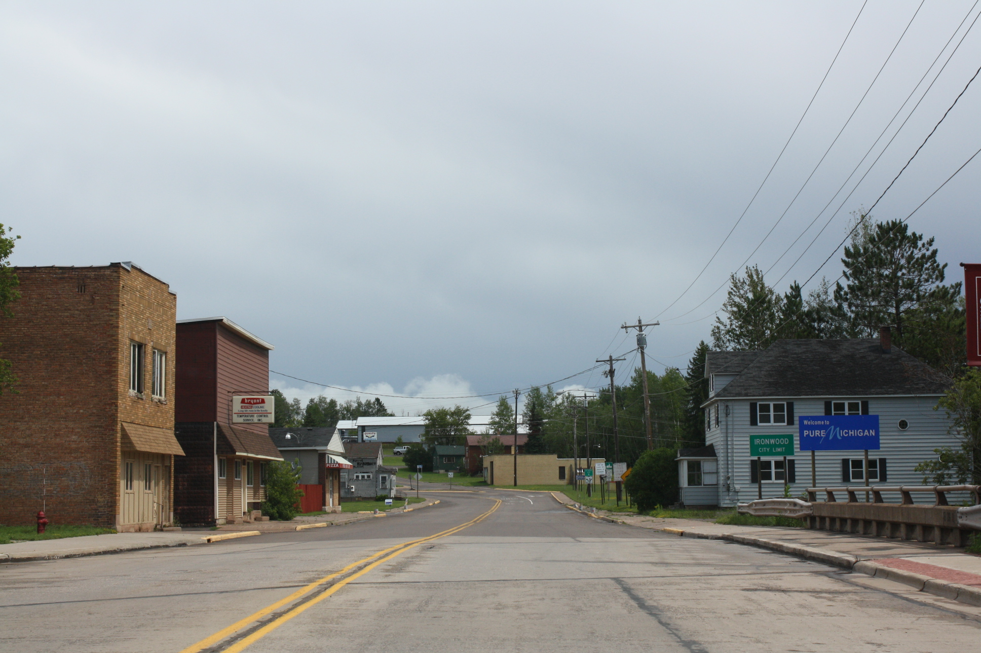 The sign in Ironwood, Michigan.